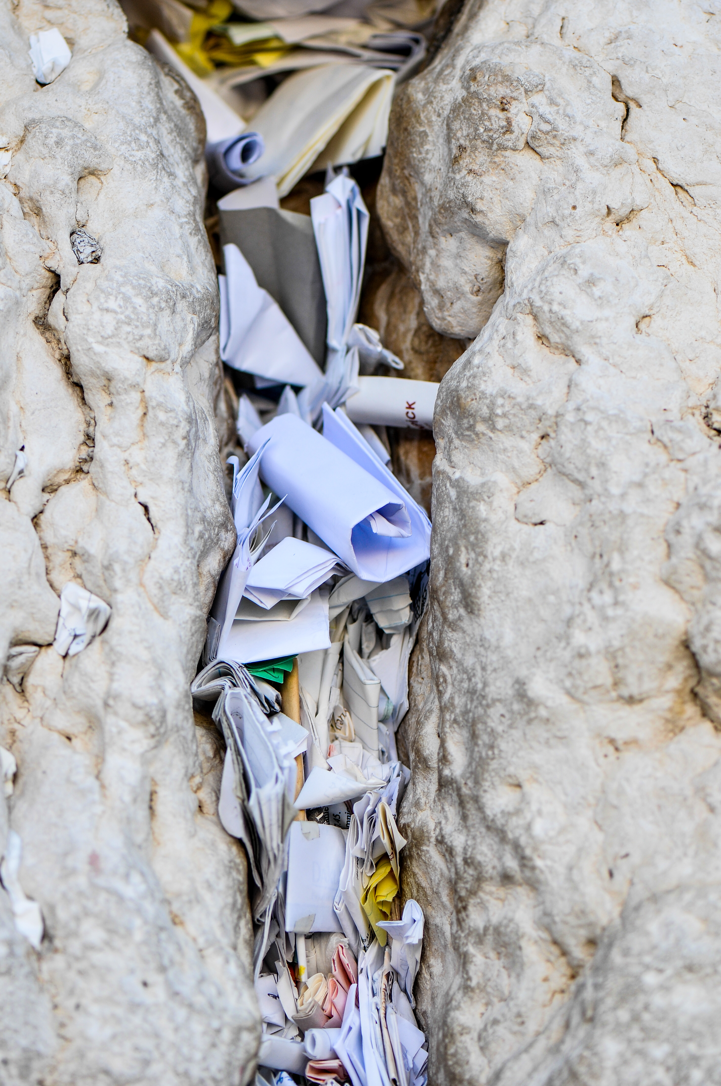 Notes in the Western Wall, Jerusalem, Israel